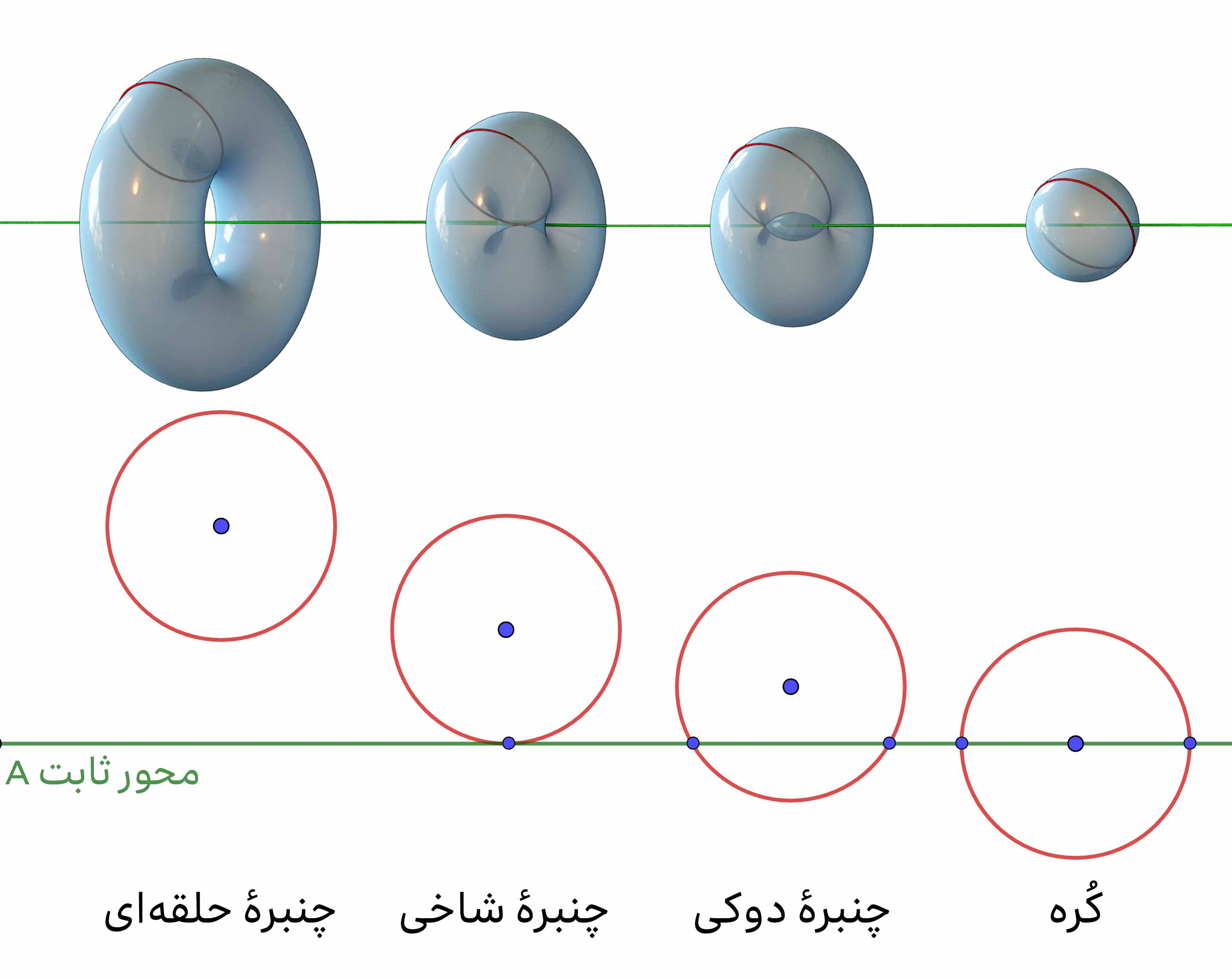 Surfaces of Revolution Generated by Circle / Persian